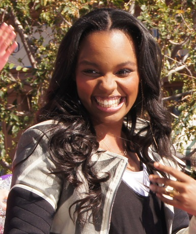 Sierra mcClain in2011 part of the band McCLAIN